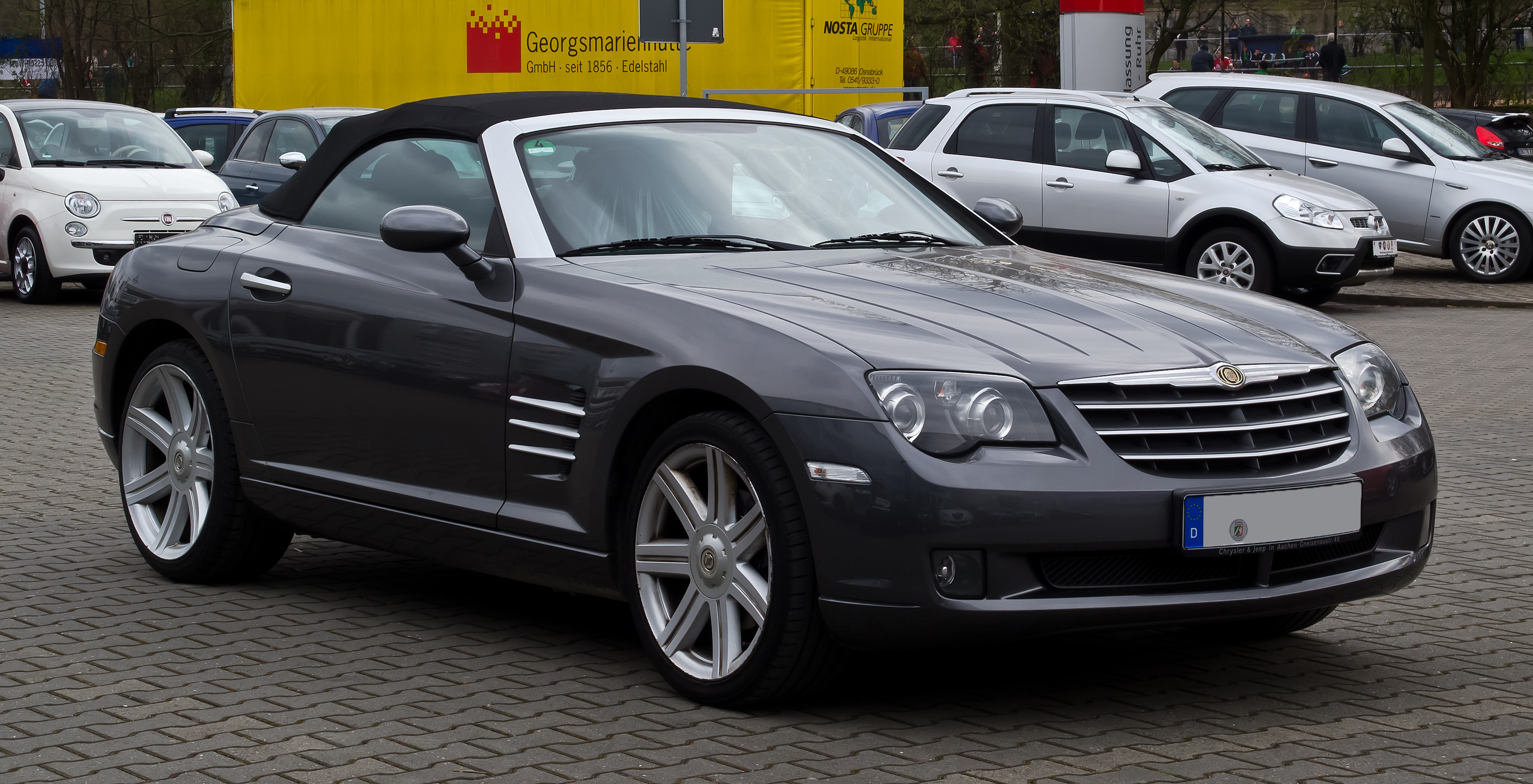 Chrysler Crossfire Roadster